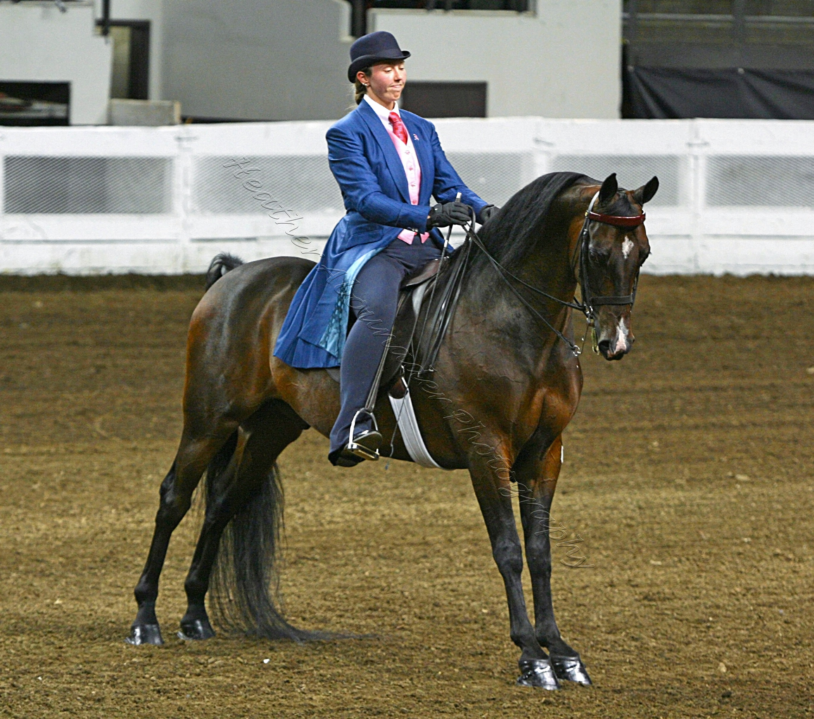 Photo By Heather Abounader